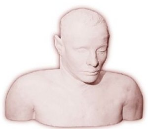 Image of the plaster cast of the dead man found on Somerton Beach, Adelaide, on the morning of 1 December 1948. (see Taman Shud case)